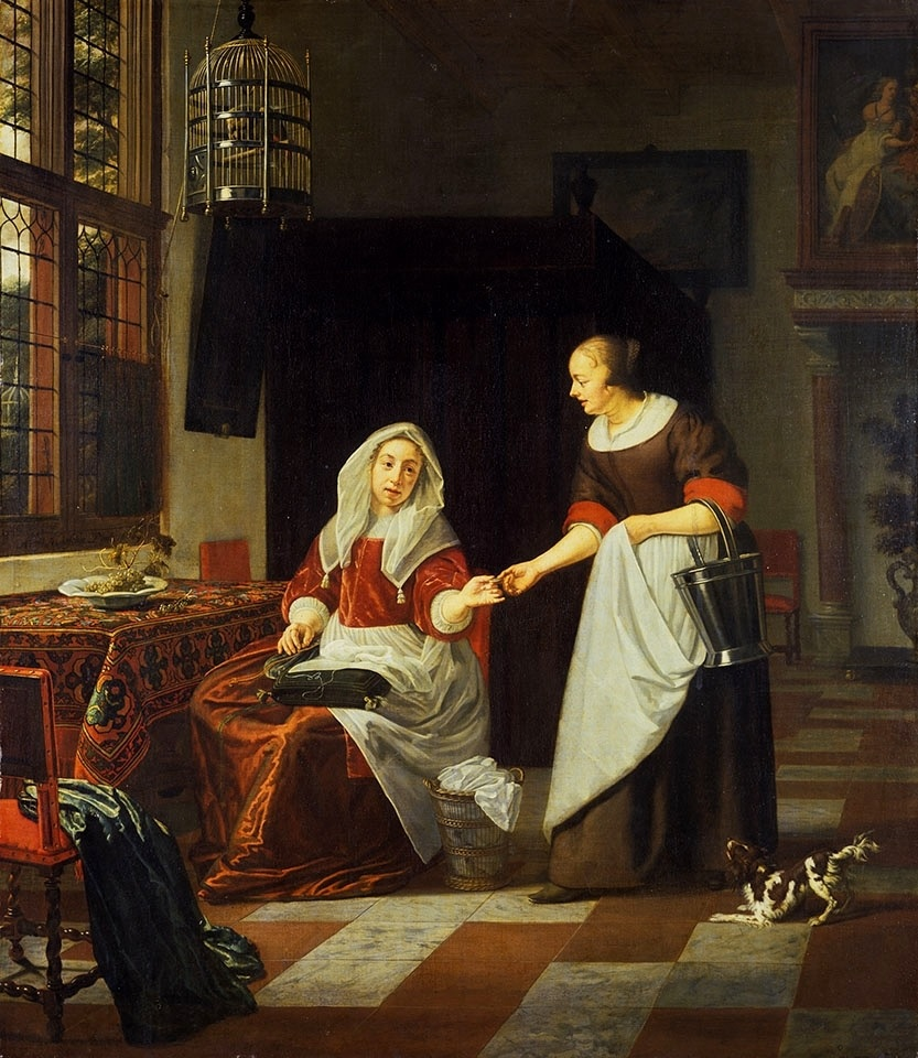 This image is available from the Netherlands Institute for Art Historyunder digital ID 248403. This tag does not indicate the copyright status of the attached work. A normal copyright tag is still required. See Commons:Licensing.